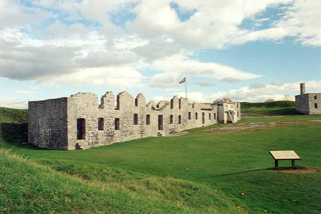 British Fort at Crown Point, NY